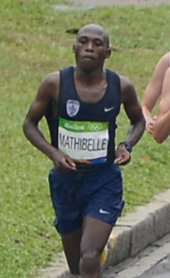 Rio de Janeiro - Sob chuva forte atletas da maratona masculina passam pelo aterro do Flamengo (Tânia Rêgo/Agência Brasil)